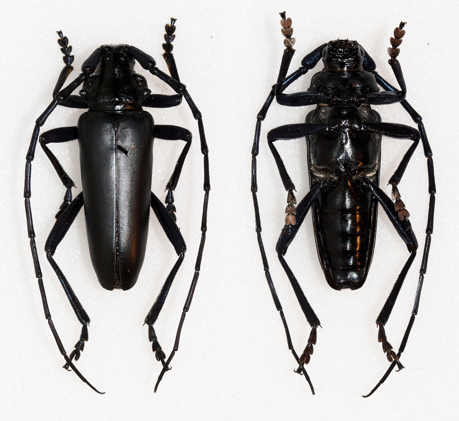 Say,1824 Sex: Male Data: 18-07-14 - Madera Canyon - Northside - Pima County - Arizona - USA Size: 32mm